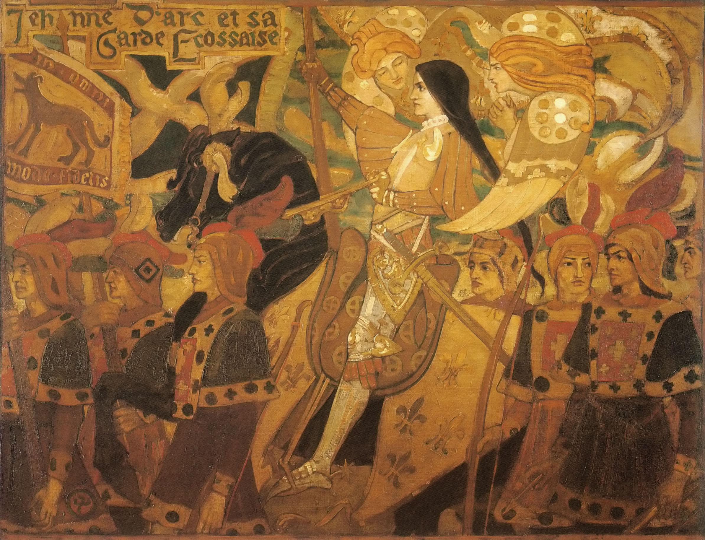 Jehanne d'Arc et sa Garde écossaise. Painting by John Duncan, Scottish symbolist painter.